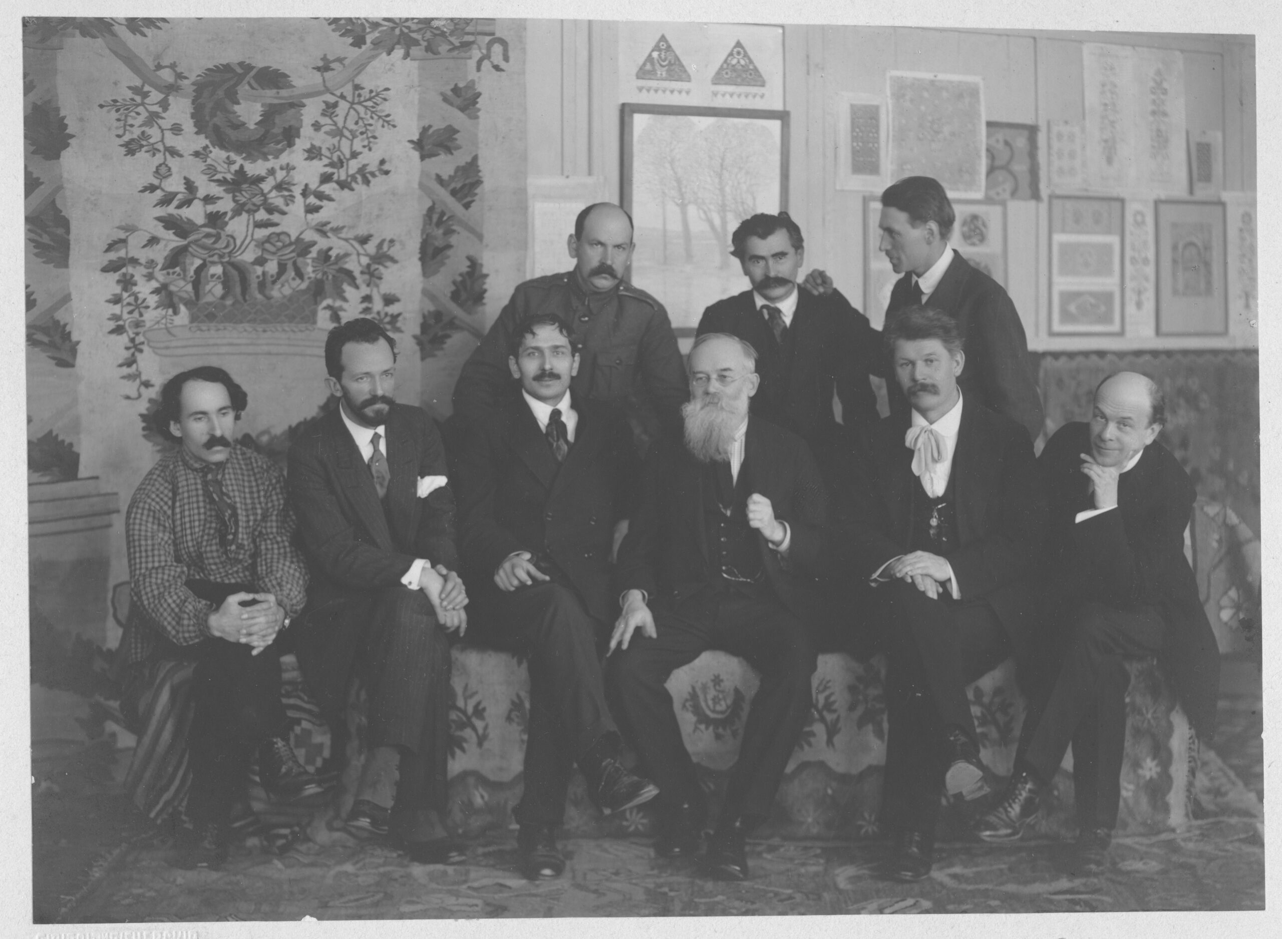 Founders of the Ukrainian state academy of arts during its opening in December, 1917.